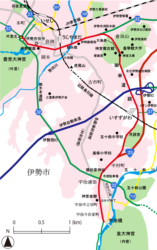 Map of the Miyuki Road in the heart of Ise City, Mie Prefecture, Japan